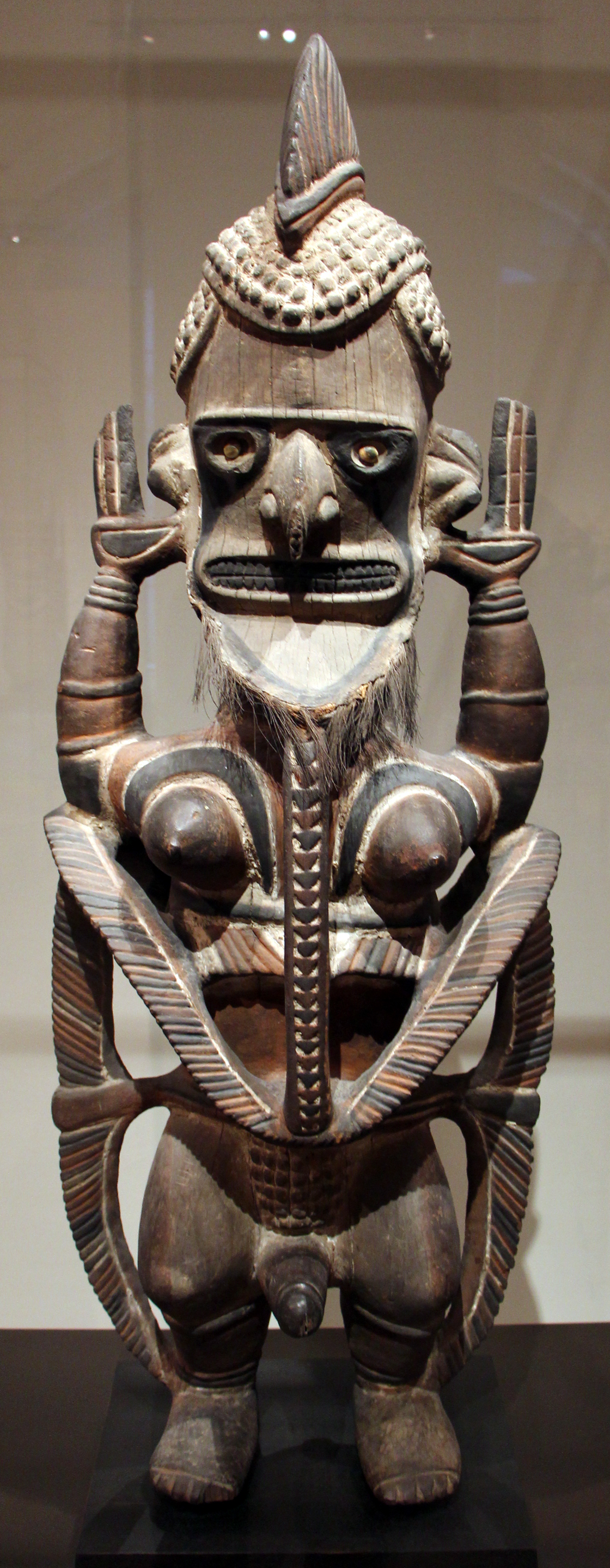 Arts of Oceania in the Louvre - Room 4